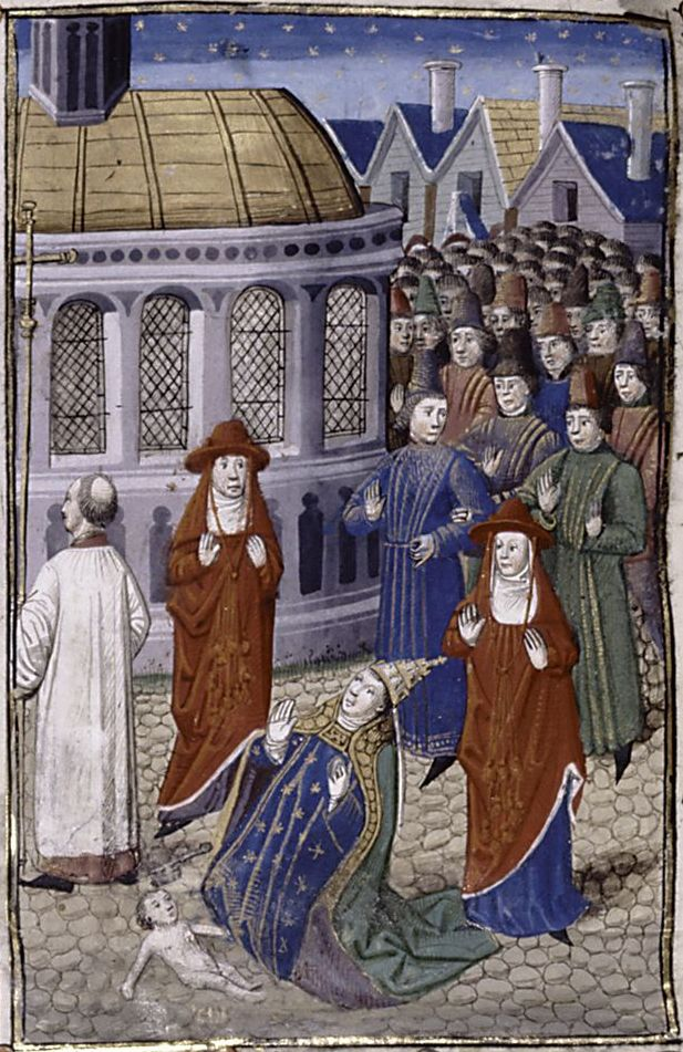 Miniature showing Pope Joan, who has just given birth to an infant during a Church procession. Spencer Collection Ms. 033, f. 69v